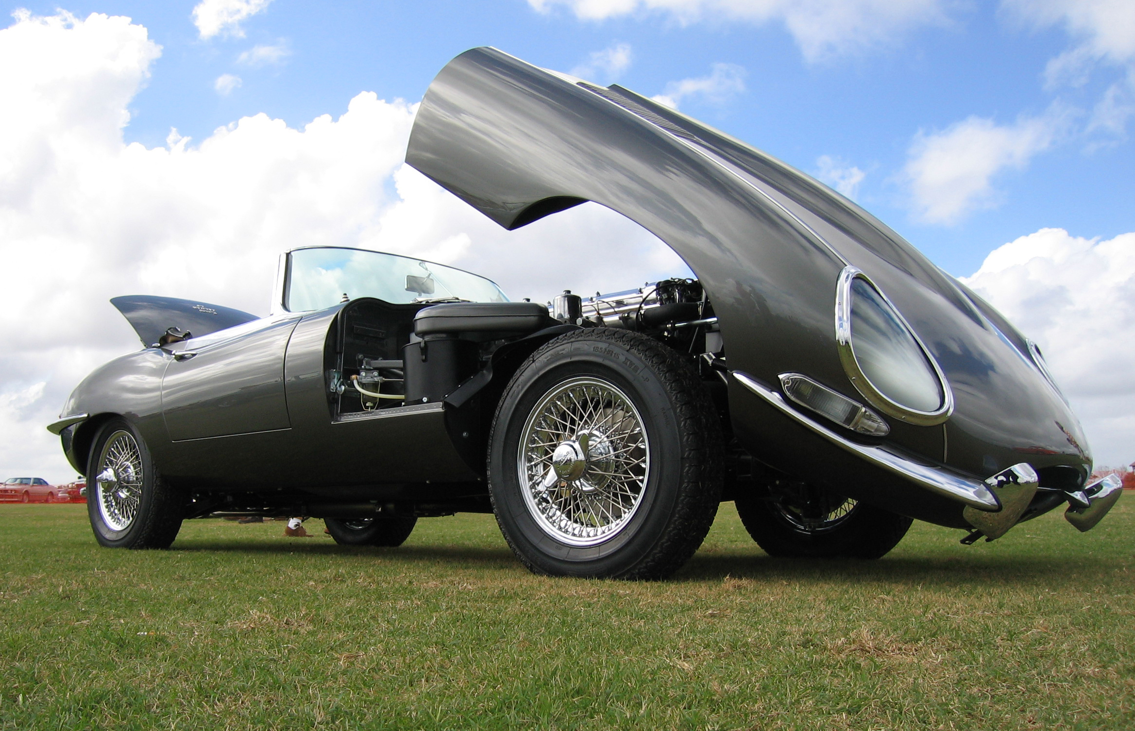 1965 Jaguar E-type. Restored by The Creative Workshop, Dania Beach,Florida 33004